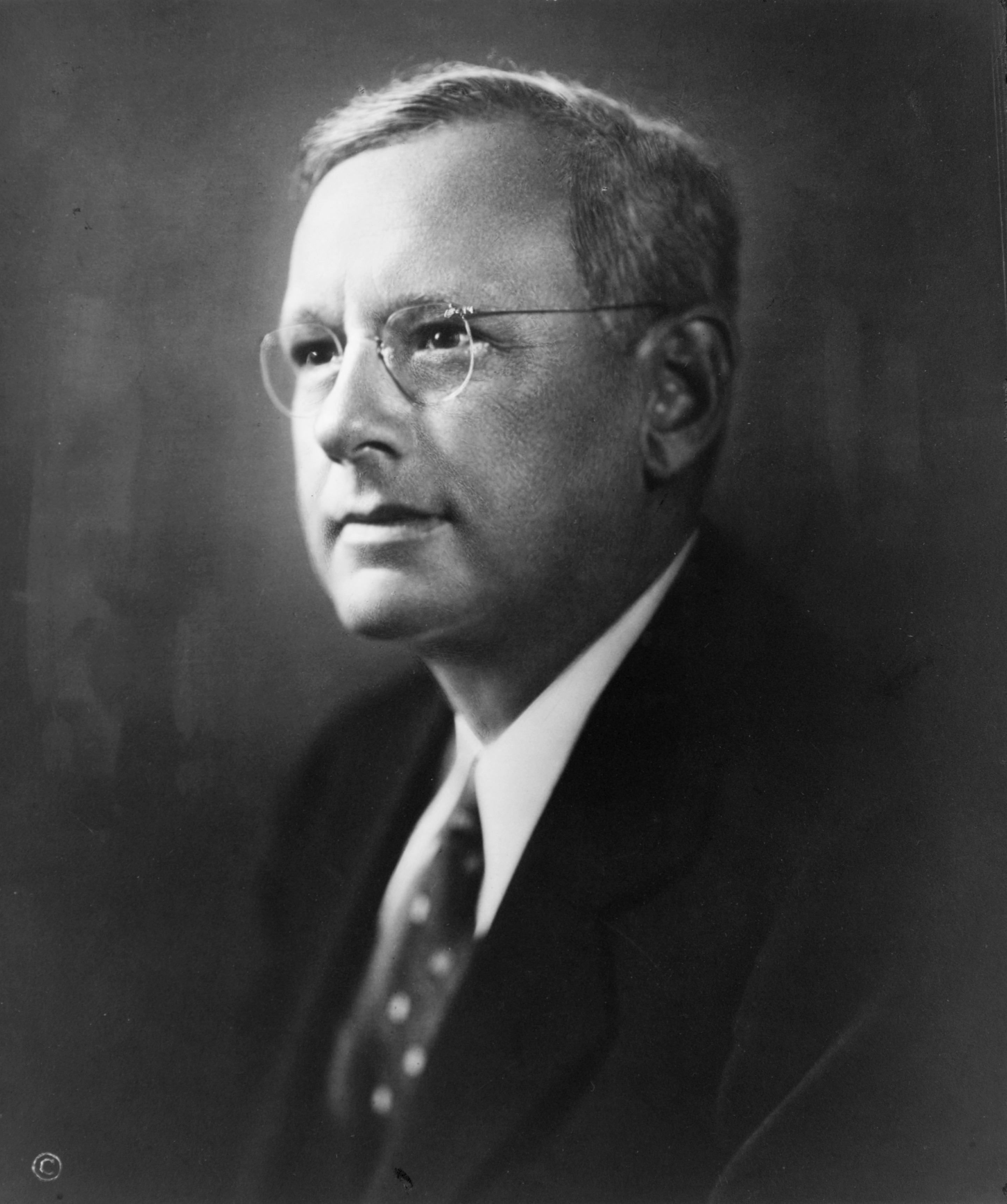 Alf Landon, Governor of Kansas and Republican presidential nominee, head-and-shoulders portrait, facing left, Library of Congress.